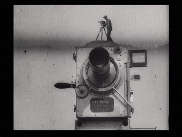 Frame from the film "Man with a Movie Camera by Dziga Vertov.